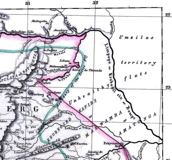 Original map of the Transvaal or South-African Republic including the Gold and Diamondfields... by A. Merensky, Superintendent of the Berlin Mission in Transvaal